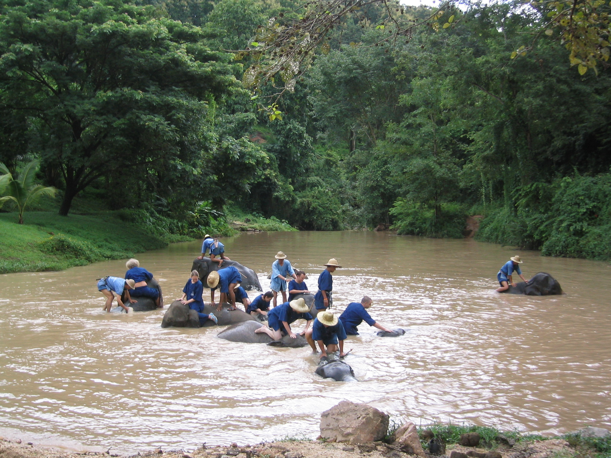 Bathing elephants, Chiang Mai province, northern Thailand